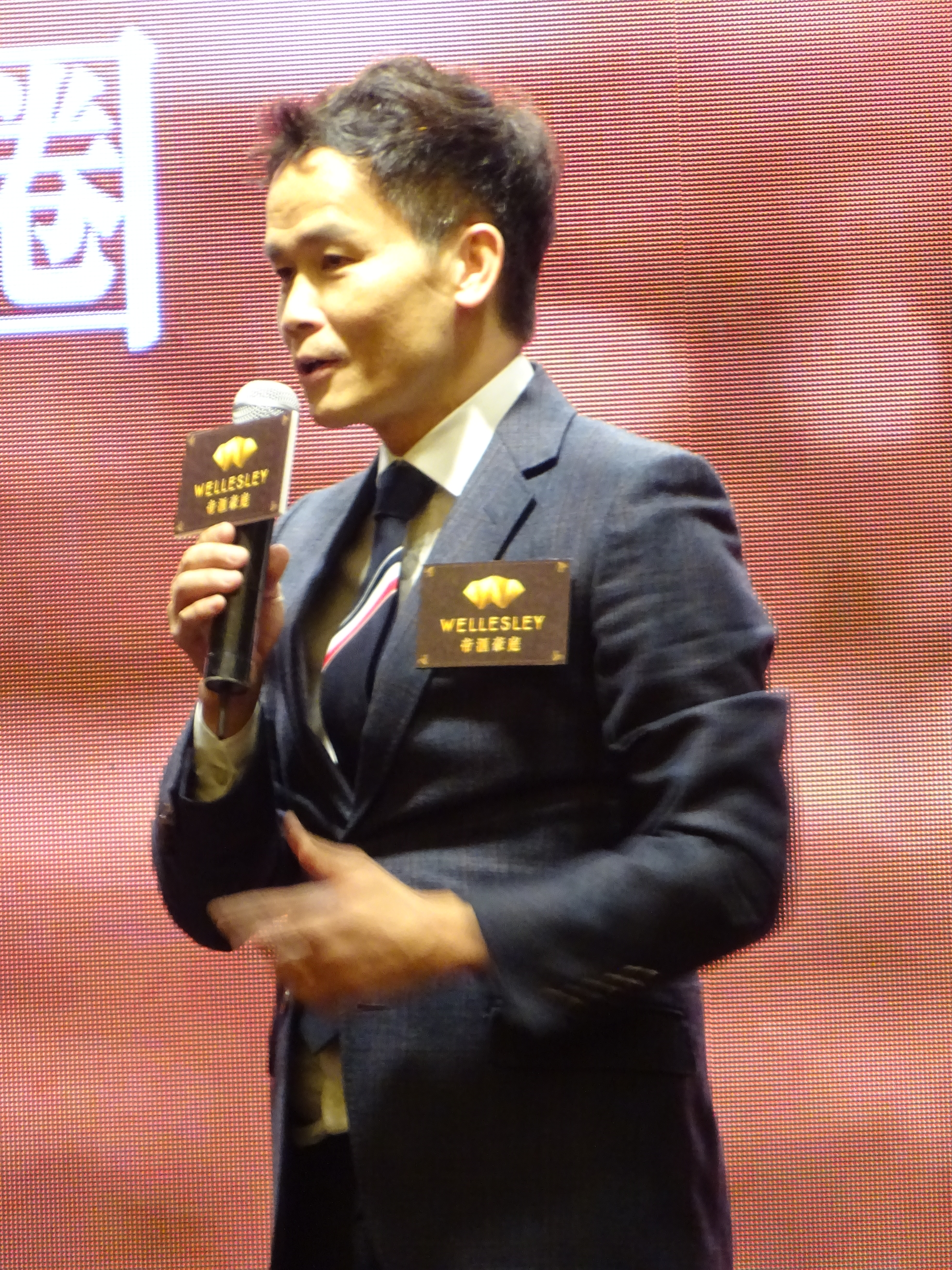 林達民, Thomas Lam Tat-man at 帝滙豪庭, Wellesley briefing of Henderson Land, Grand Hyatt Hotel, Wan Chai, Hong Kong